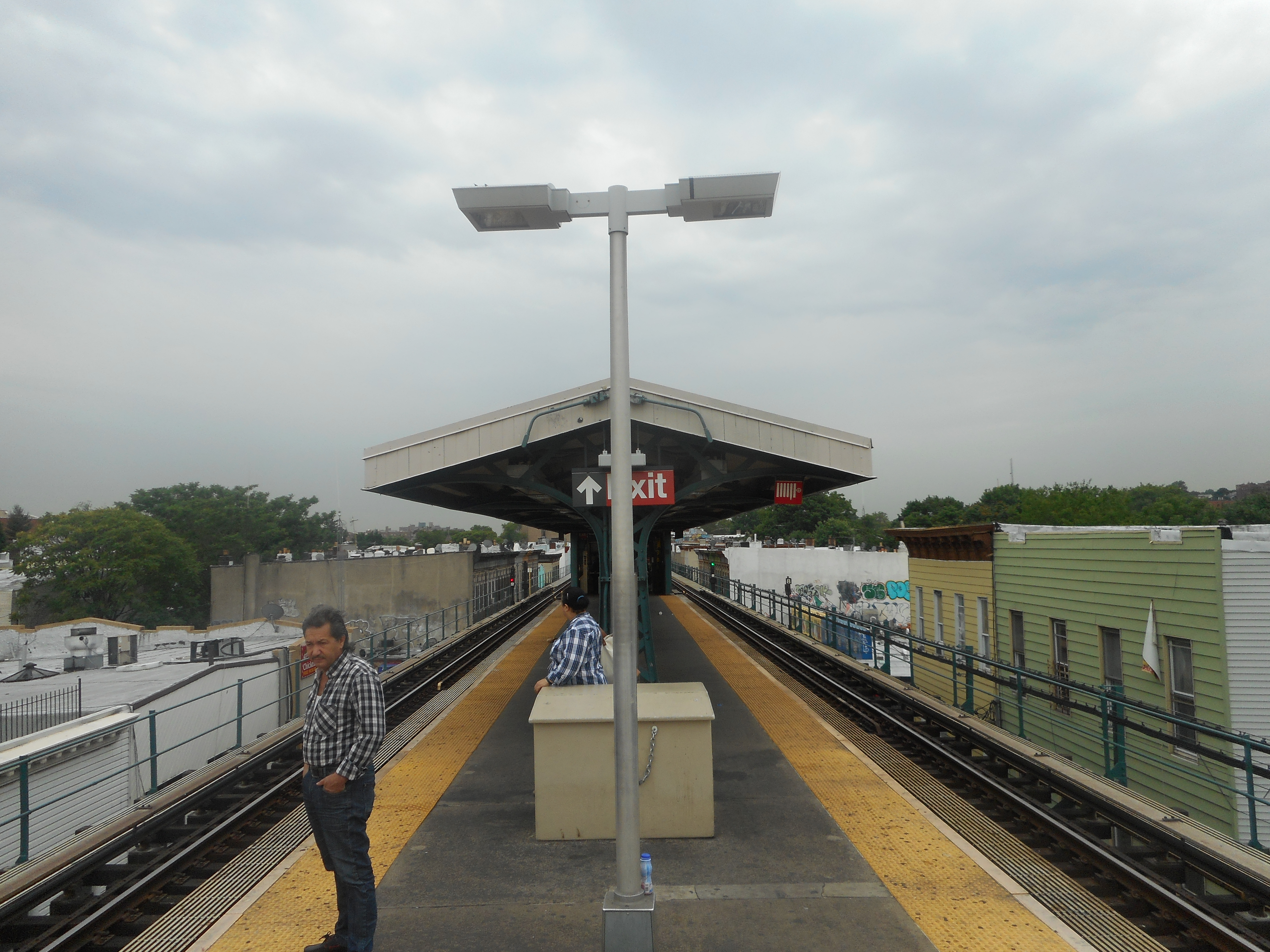 Westbound view of the center platform along the Cleveland Elevated Railway station on the BMT Jamaica Line in the Cypress Hills sections of Brooklyn, New York City. The canopy with exit signs to the station house can be seen close in the background. This view is looking over Fulton Street west of Elton Street.